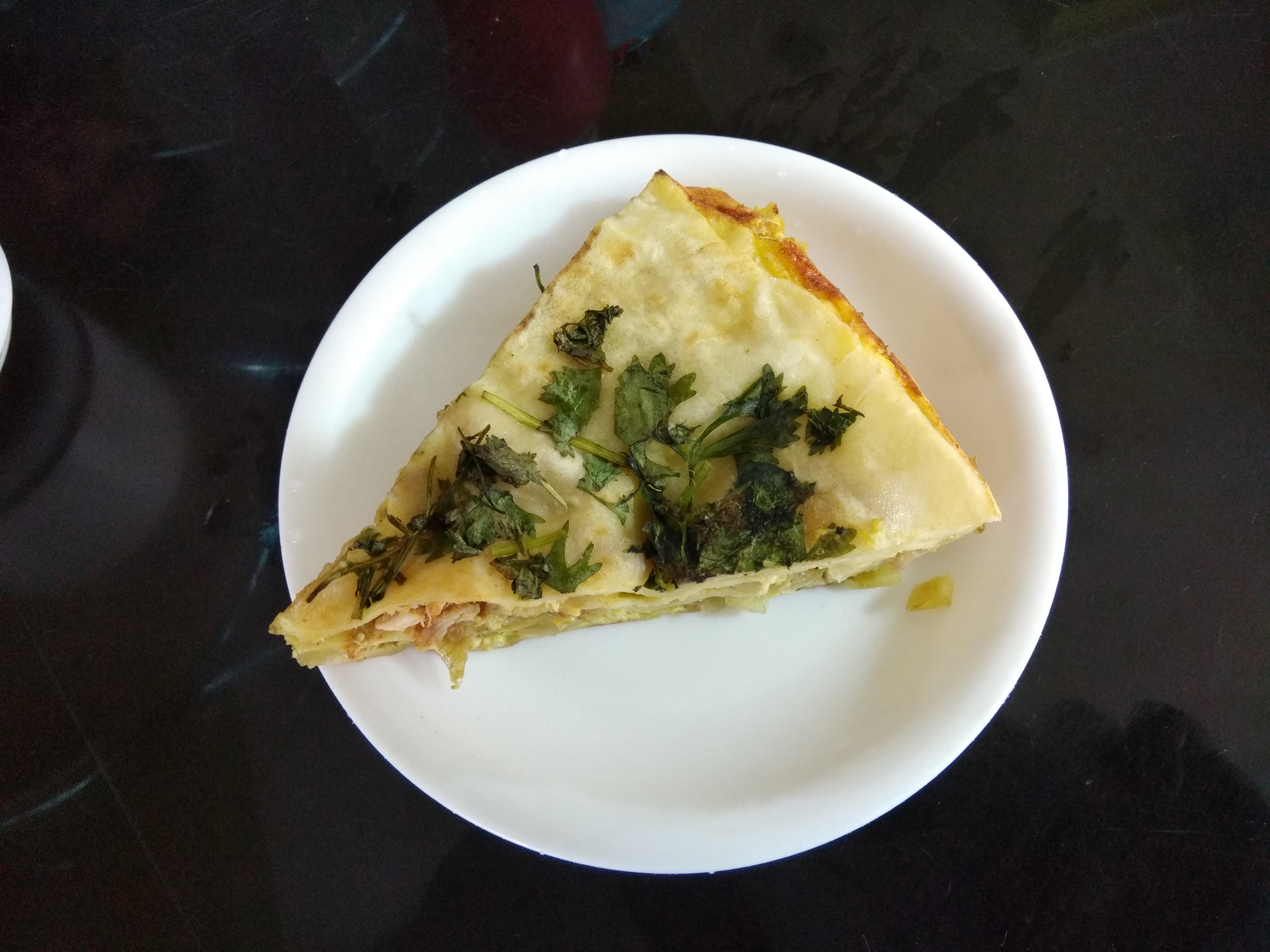 chattippathiri